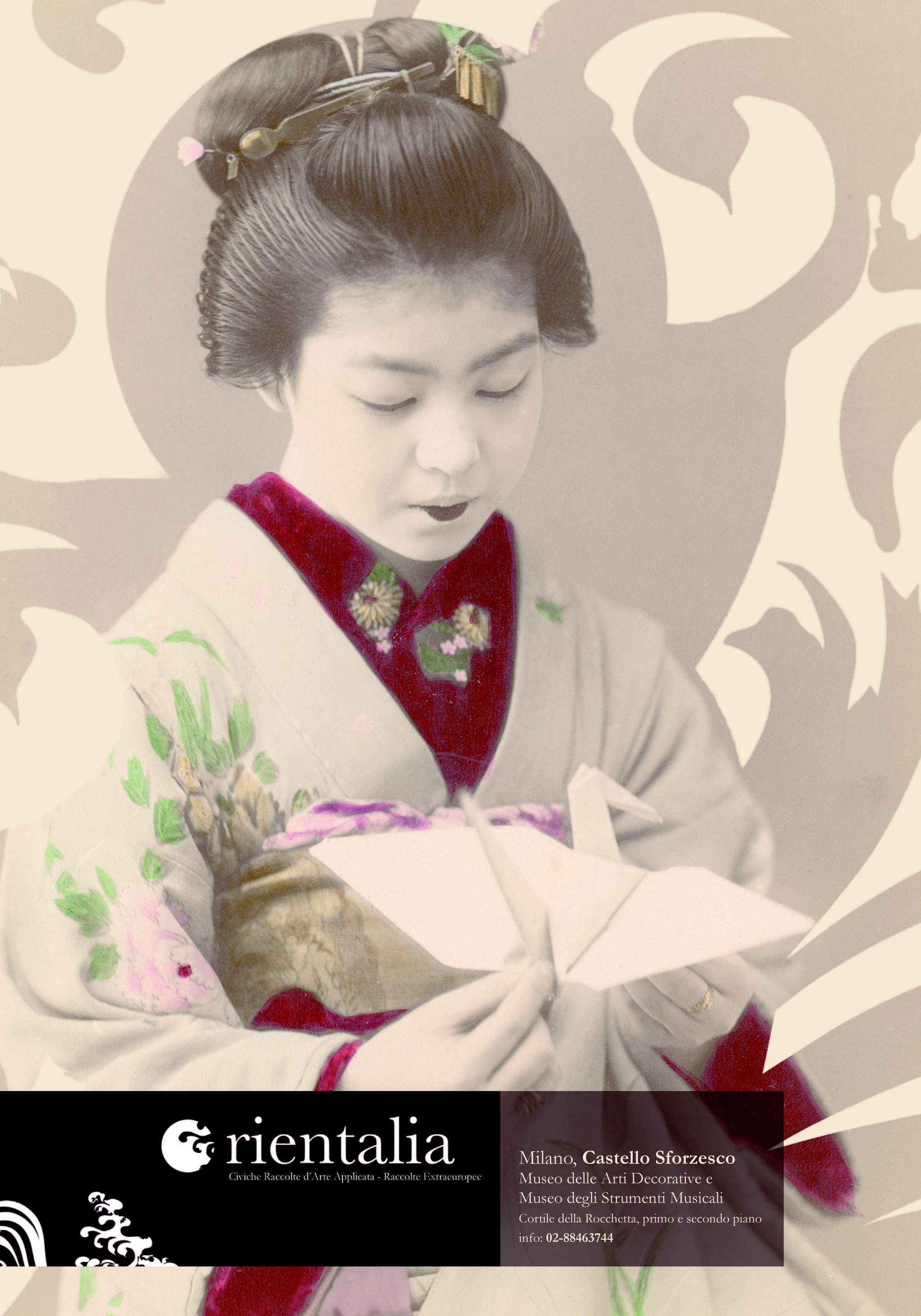 Exhibition poster